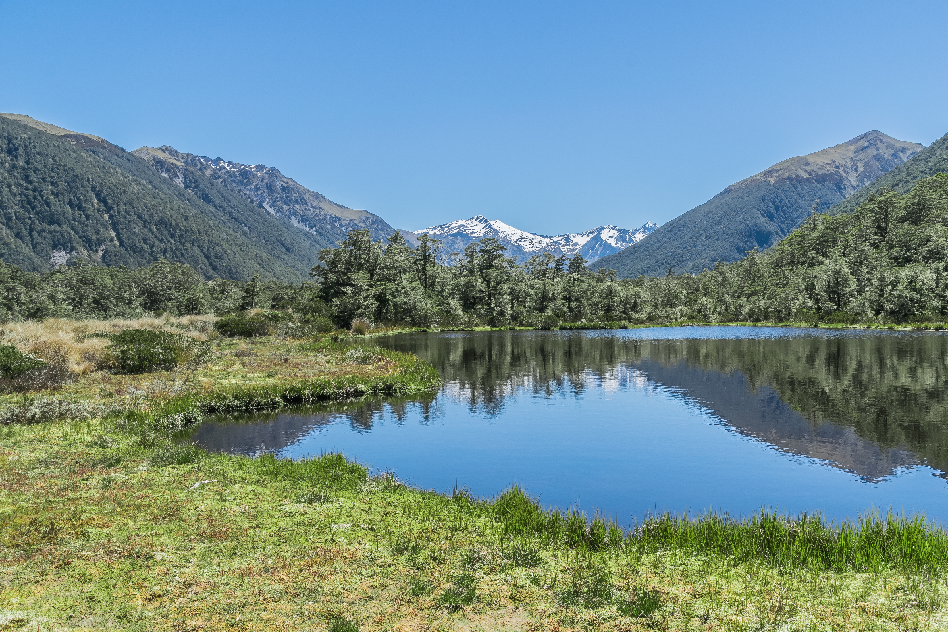 Alpine tarn on Lewis Pass, South Island of New Zealand